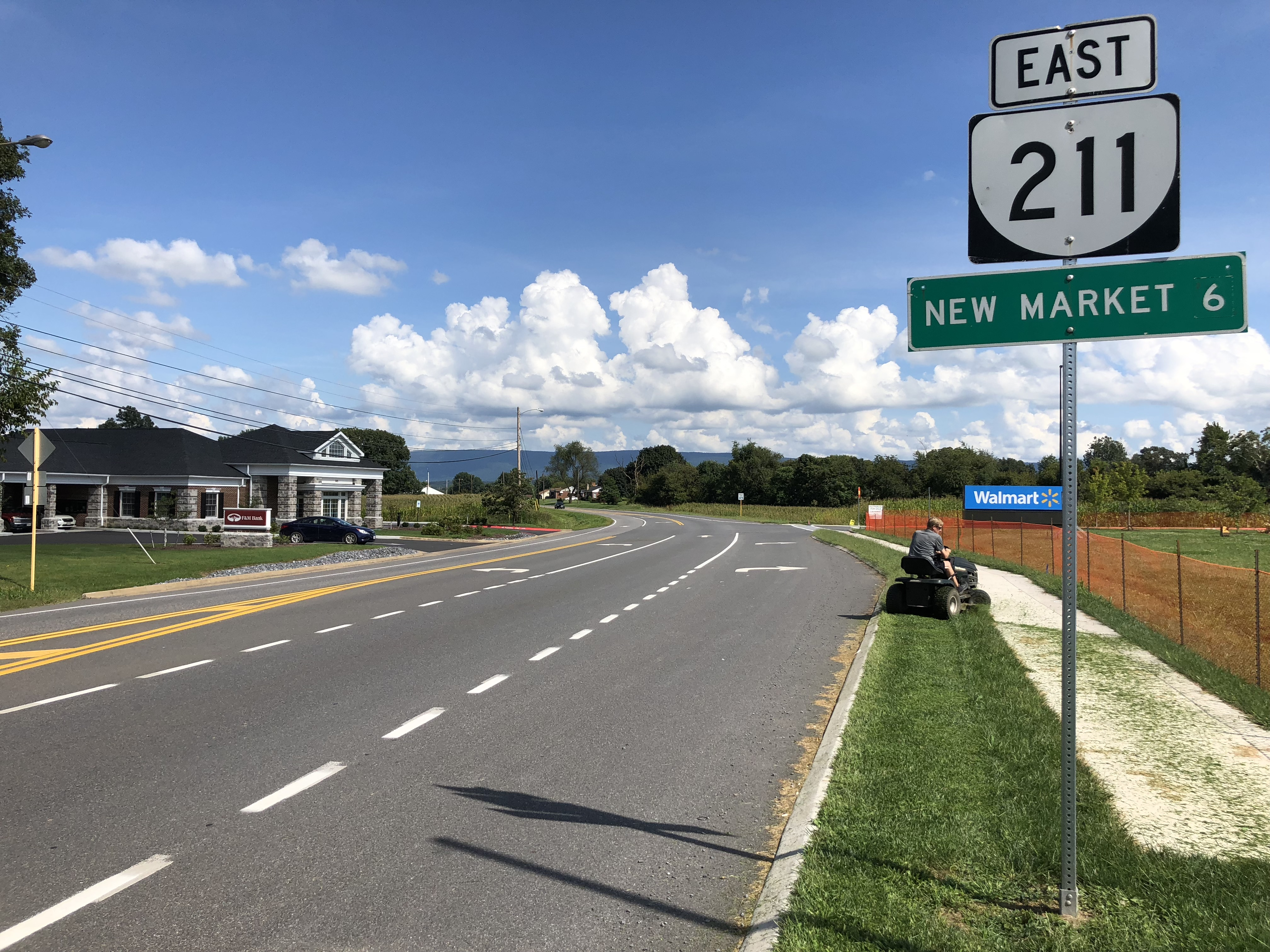 View east along Virginia State Route 211 (New Market Road) at Center Street in Timberville, Rockingham County, Virginia